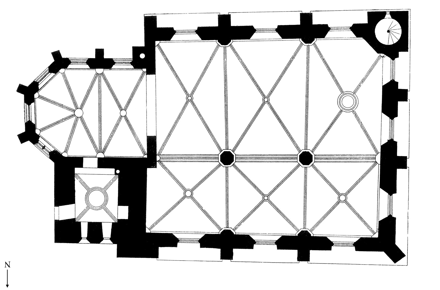 Frankfurt on the Main: Old Saint Nicholas Church, floor plan "northside" below